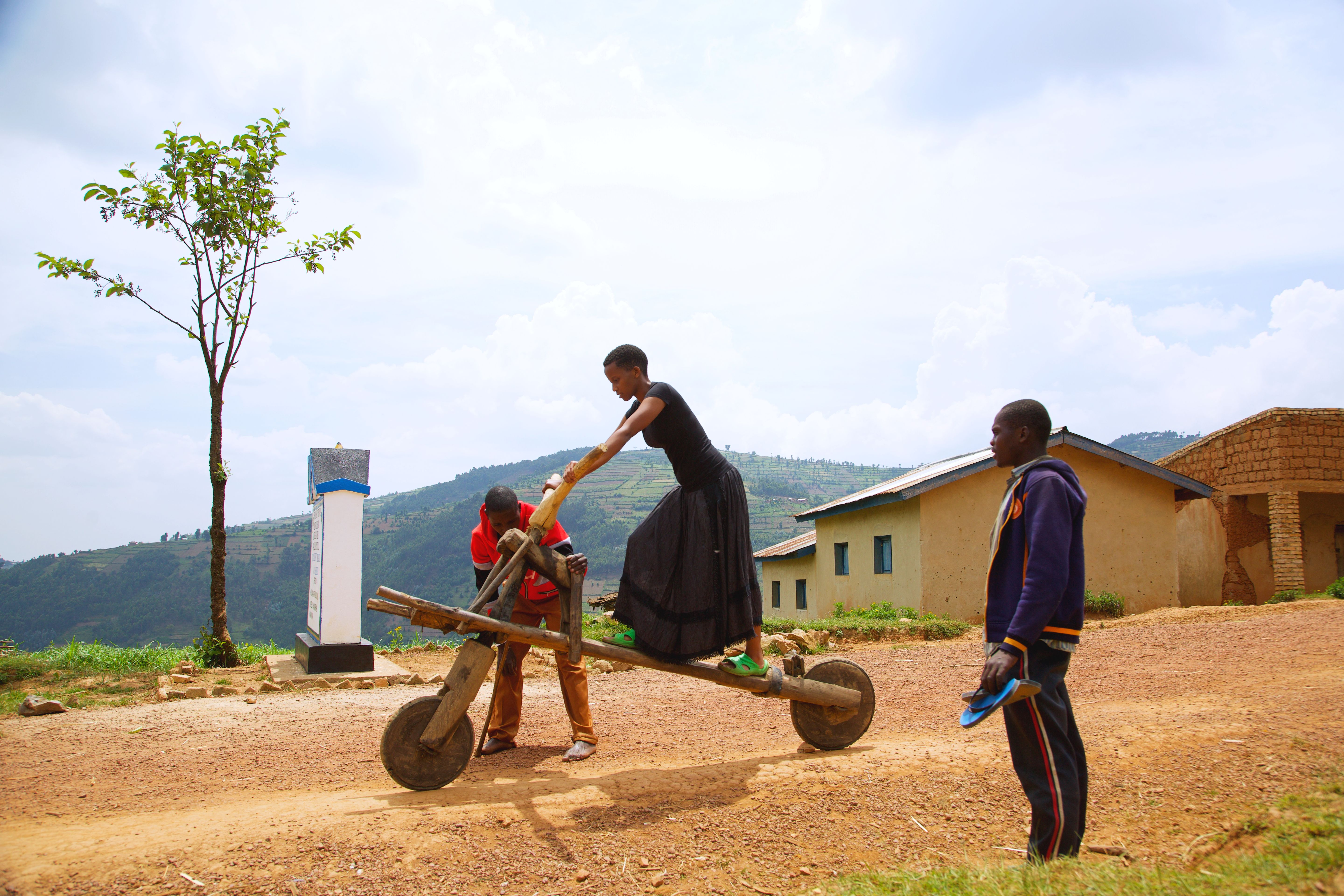 Icuguti, Igitogotogo… is a makeshift “wooden” bike has been an important transport tool popularly known in the Northern and Western parts of Rwanda, where people used it to carry their harvests and merchandise to the remote markets. It can carry up to 500 kilos. As the country is moving towards modernity, this transport tool is becoming more and more extinct, being replaced by bicycles. But as the users of this tool say it, it’s far better than a bicycle because it carries heavy loads than the bicycles, and since it’s made in wood, it’s easy and free to mend when it’s broken. The story of this picture also goes with cultural defiance. Traditionally, a girl in Rwanda was not allowed to ride a bike as many called it “unaccustomed”. The stereotype that surrounded the fact that a girl rides a bike, was that it could deflower her. But in this picture, a tradition-defying girl is being helped by her brother who is teaching her how to ride it. The picture was taken in Burera, the district in the northern province of Rwanda, where few wooden bikes can still be found. This is an image with the theme "Africa on the Move or Transport" from: Rwanda